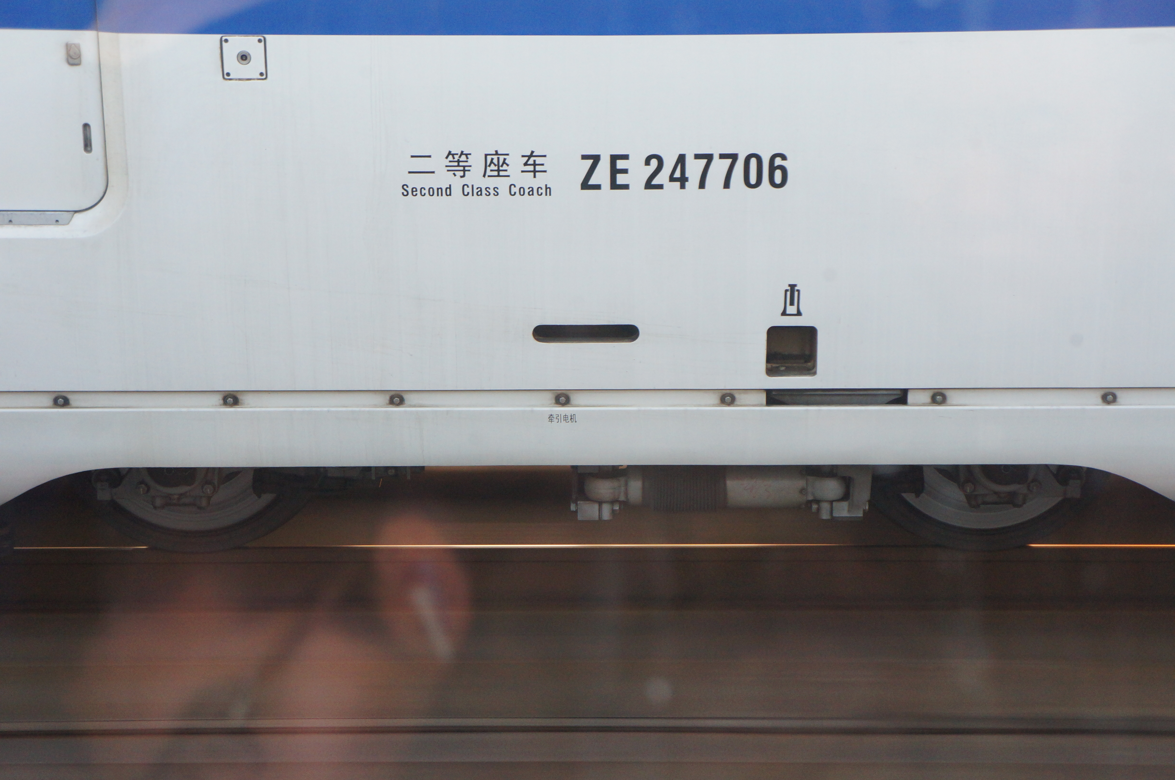 201701 Bogie of CRH2ATX-2477. G7365 exceeds delayed D3235 on two parallel railways in Hangzhou